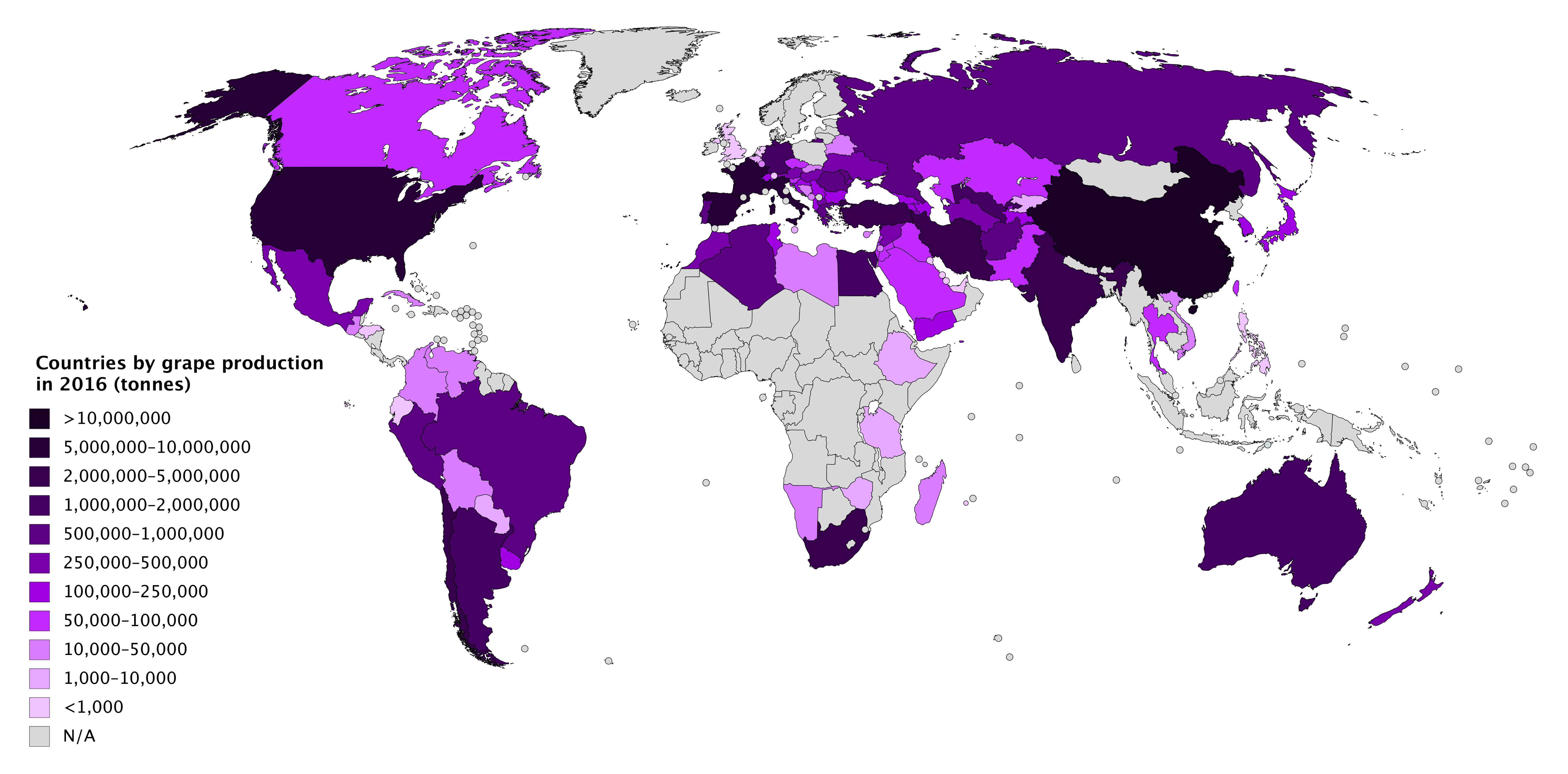 A choropleth map showing countries by grape production in tonnes, based on 2016 data from the Food and Agriculture Organization Corporate Statistical Database (FAOSTAT).